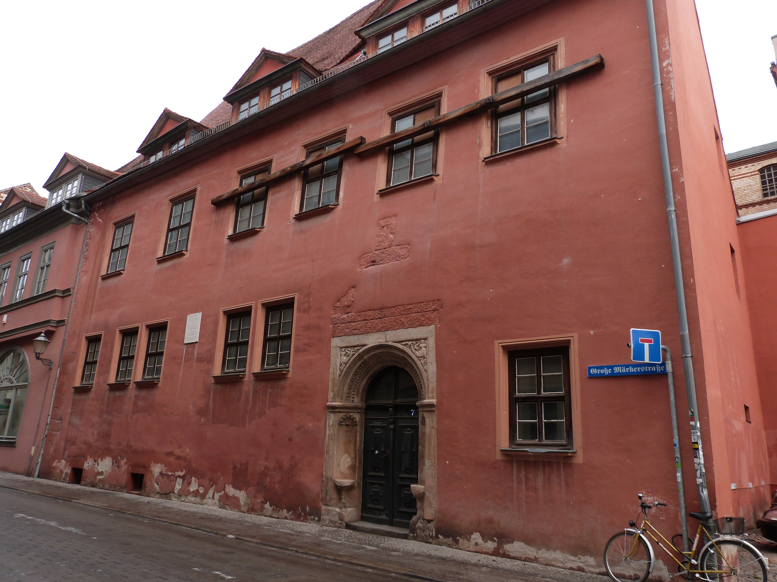 House No. 7, Grosse Märkerstrasse, halle (Saale)